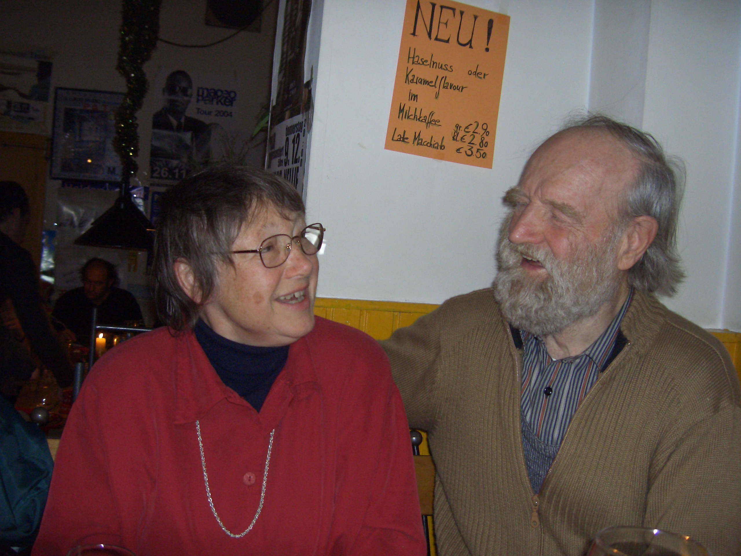 Helga Weber und Wolfgang Zucht, 30.11.2004, beim Graswurzelrevolution-HerausgeberInnentreffen in Hannover. Foto: Bernd Drücke